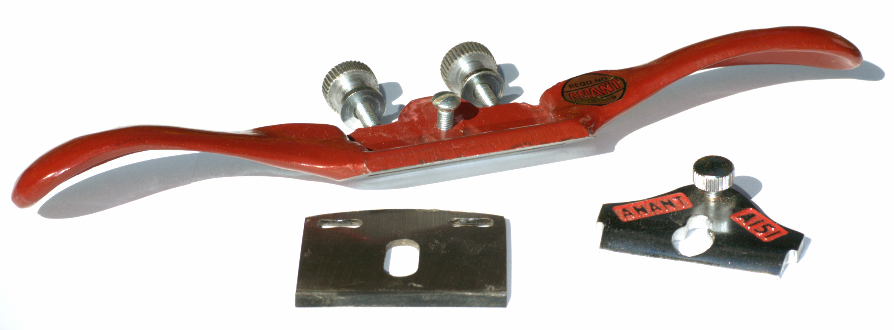 A dismounted Spokeshave.